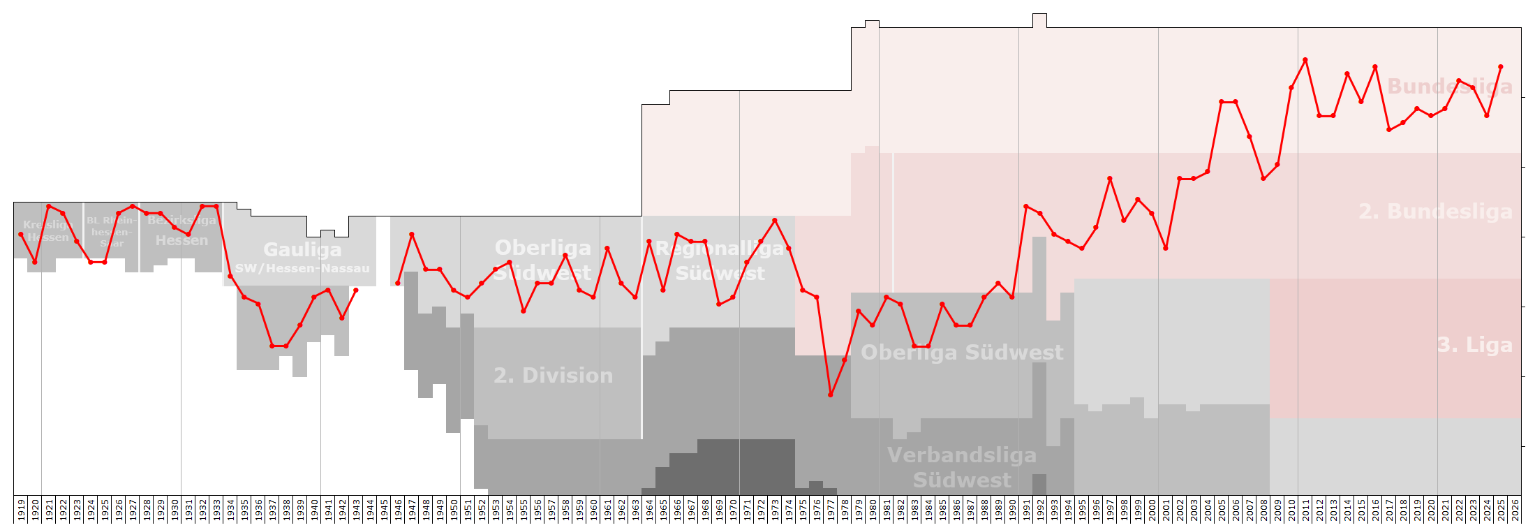 Chart of end-season table positions of FSV Mainz 05 in the football league system of Germany. Data source: RSSSF, wikipedia, f-archiv.de, fussball.de